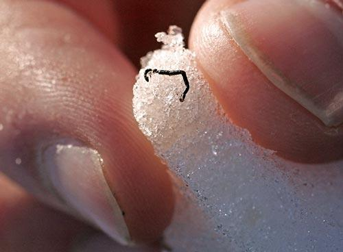 Ice Worm against Fingernail